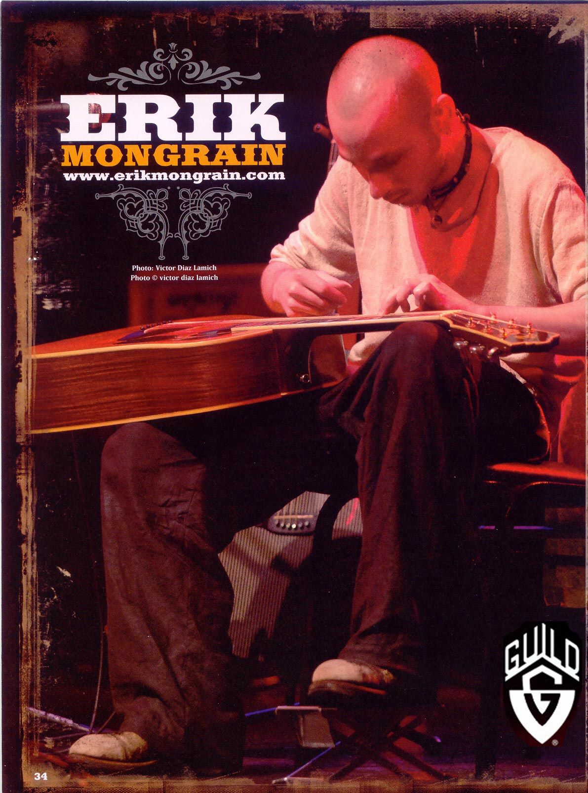 Erik Mongrain live at Club Soda of Montreal for Catalogue Guild by Victor Diaz Lamich